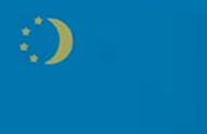 Flag of Chatkal district